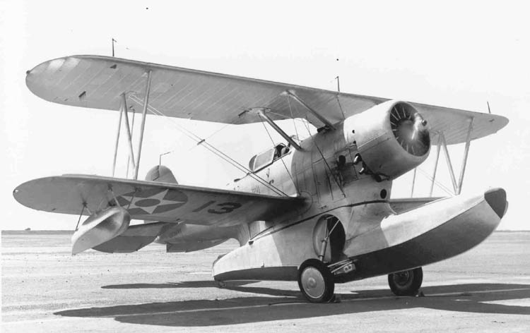 Grumman JF-1 (9434) at Oakland Airport in 1936.